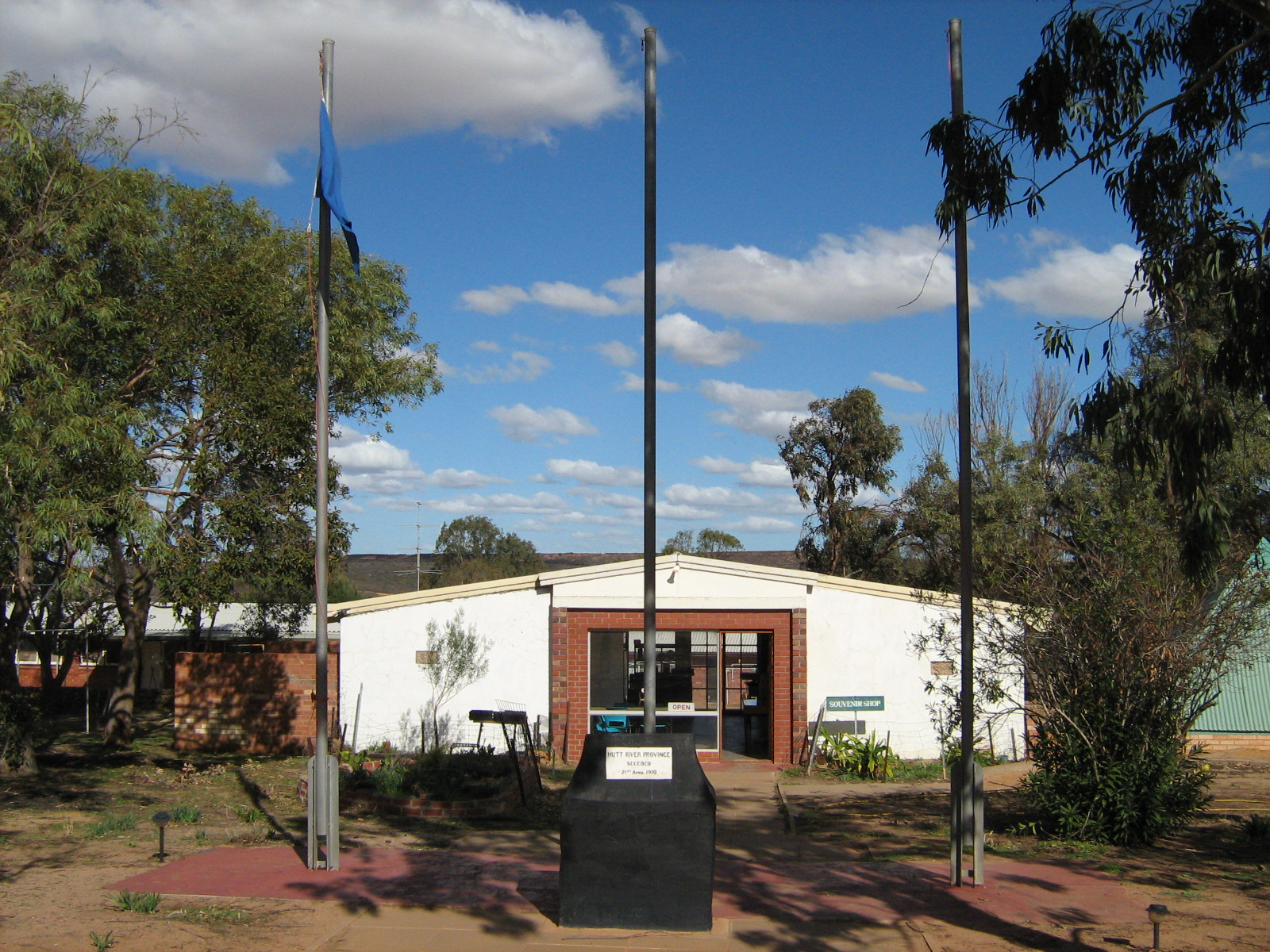 Souvenir shop at Hutt River Principality.